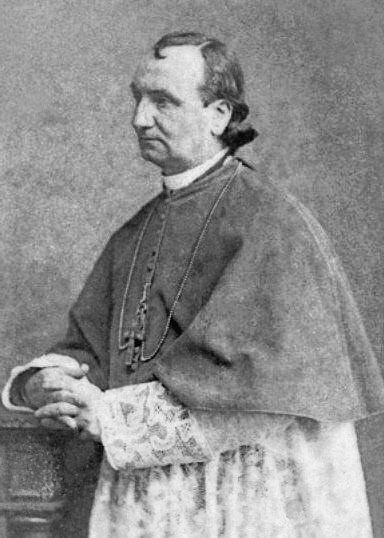 Photograph of Cardinal Gaspard Mermillod from the 1800s